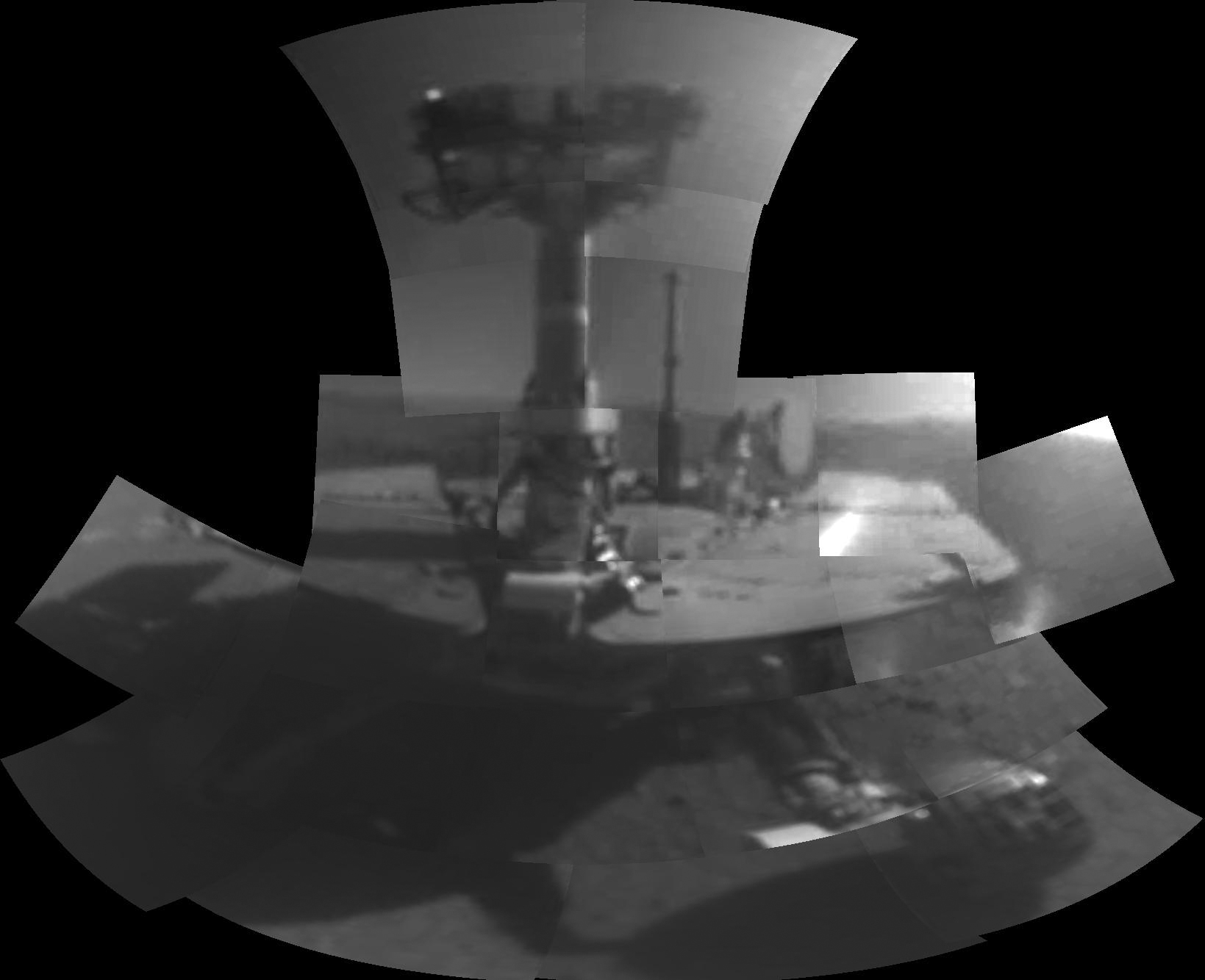 PIA22222: Opportunity's First Selfie This self-portrait of NASA's Opportunity Mars rover shows the vehicle at a site called "Perseverance Valley" on the slopes of Endeavour Crater. It was taken with the rover's Microscopic Imager to celebrate the 5000th Martian Day, or sol, of the rover's mission. The Microscopic Imager is a fixed-focus camera mounted at the end of the rover's robotic arm. Because it was designed for close inspection of rocks, soils and other targets at a distance of around 2.7 inches (7 cm), the rover is out of focus. The rover's self-portrait view is made by stitching together multiple images take on Sol 5,000 and 5,006 of the mission. Wrist motions and turret rotations on the arm allowed the Microscopic Imager to acquire the mosaic's component images. The resulting mosaic does not include the rover's arm.